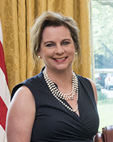 Flanked by (from left) Seema Verma, Administrator of the Centers for Medicare and Medicaid Services; Marjorie Dannenfelser, President of Susan B. Anthony List; Rep. Diane Black (TN-06), Chairman of the House Budget Committee; and Penny Nance, CEO and President of Concerned Women for America; President Donald Trump poses for a photo after signing H.J.Res. 43 in the Oval Office, Thursday, April 13, 2017. (Official White House Photo by D. Myles Cullen)